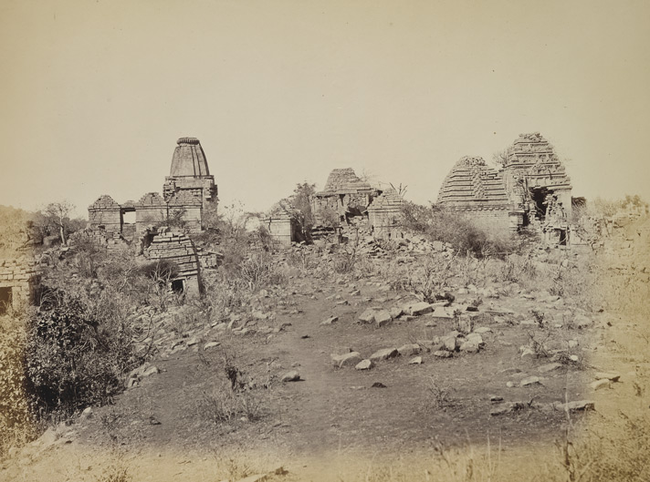 The site of Ghumli has many ruins from the Solanki period, 12th Century. Around Suvan Kansar there is a large well with many temples. The larger ones consist of a square shrine with a long mandapa and the smaller ones of a cell and a porch. The mandapas have fallen.